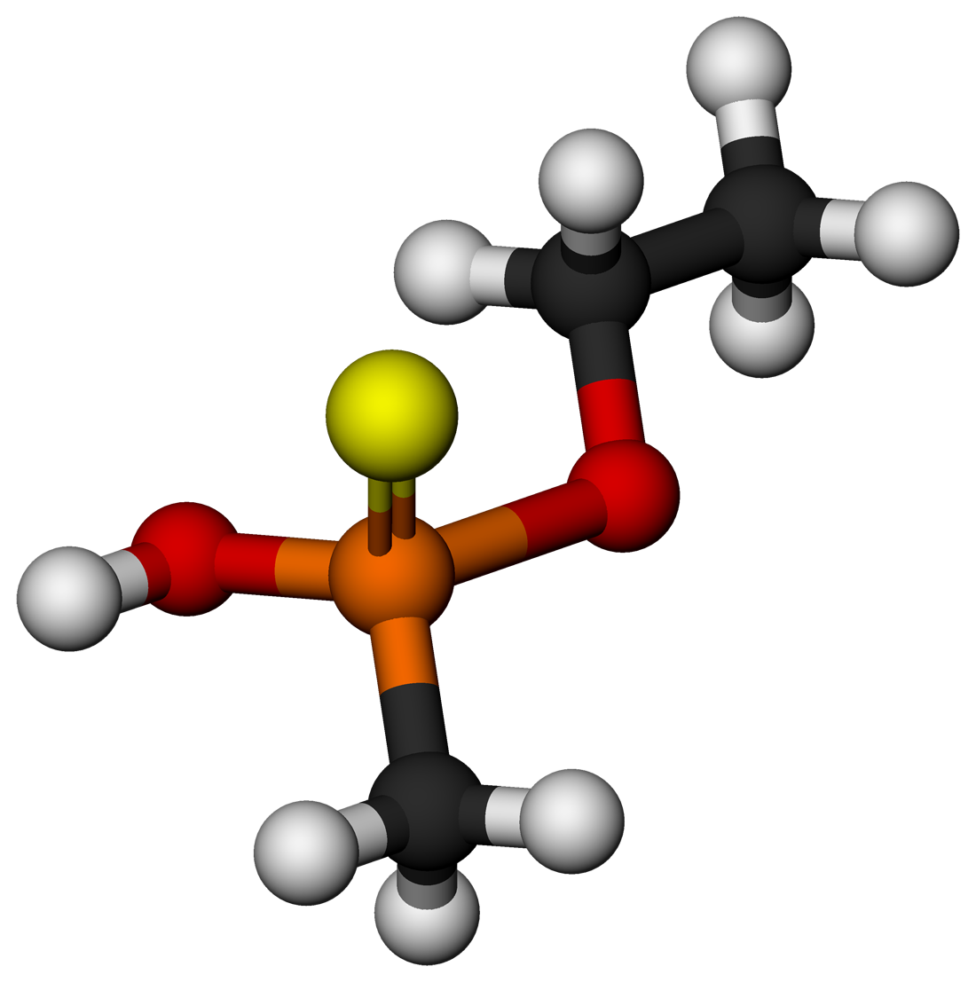 EMPTA x1100